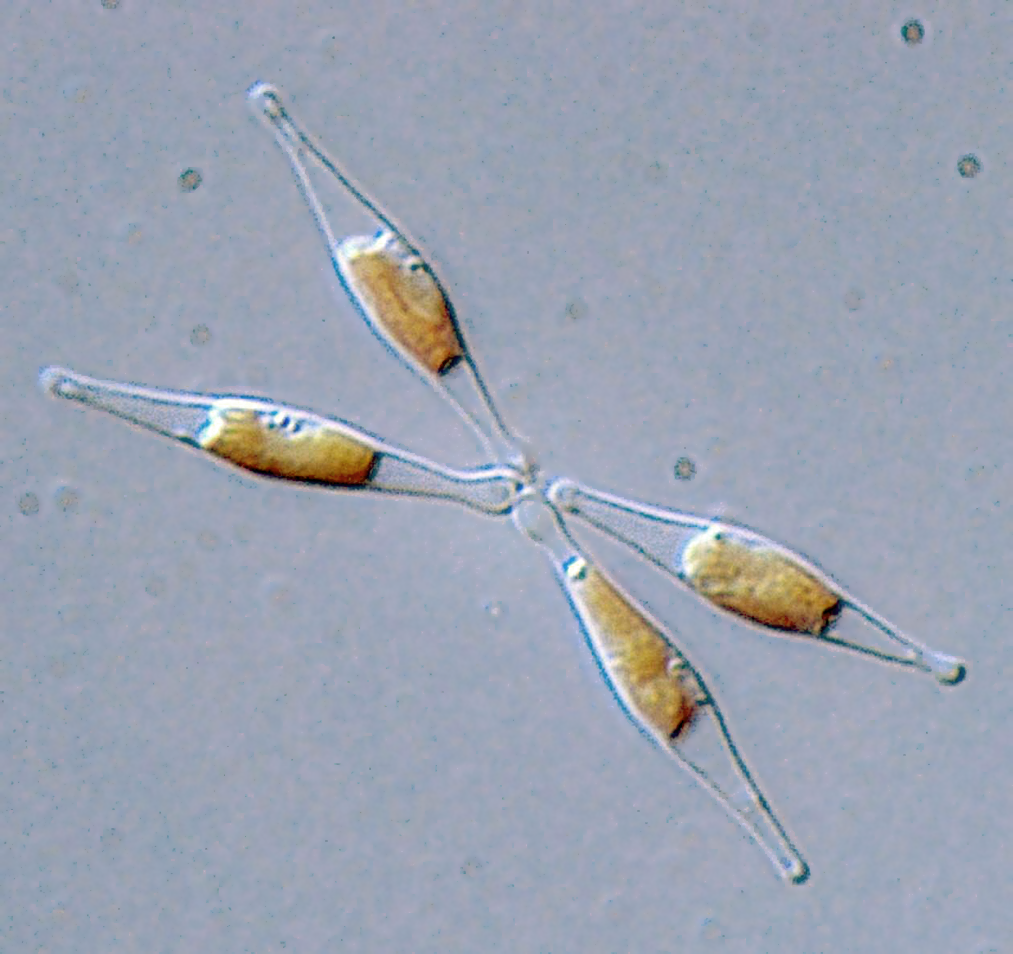 Light Micrograph of Phaeodactylum tricornutum. This pennate diatom is the ‘lab rat’ of diatoms, and its genome sequence is currently being determined.